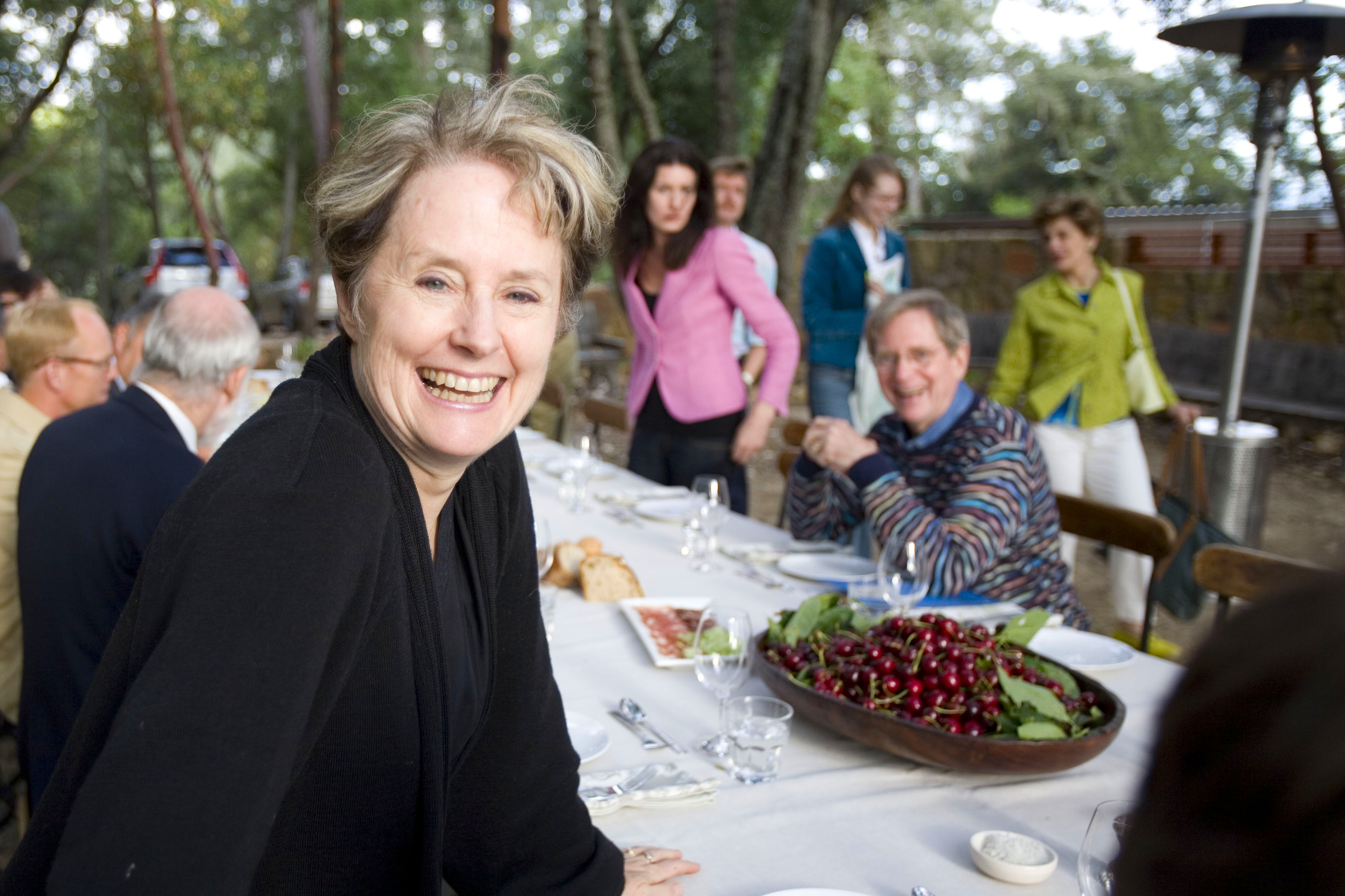 The wonderful chef, restaurateur, and leader of the slow food movement, Alice Waters of Chez Panisse catered dinner for the group, and brought with her a bevy of wonderful local produce, all crafted in a beautiful and thoroughly delicious manner. She spent about 15 minutes telling us all about the food, where it came from, and gave us all a brief introduction to the slow food movement. A wonderful aperitif to the delightful dinner!